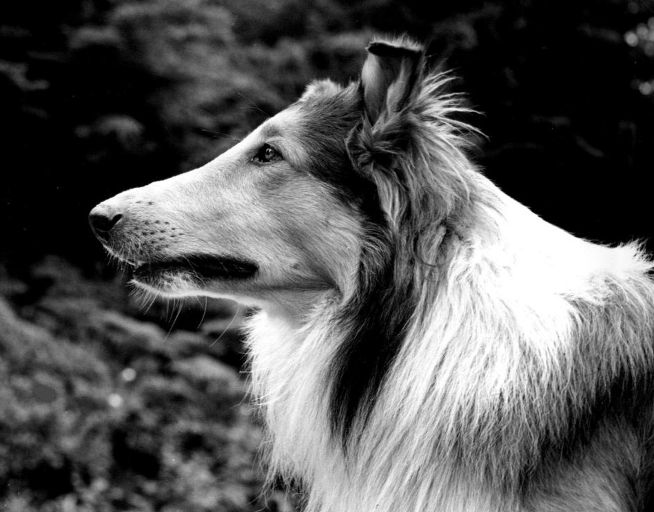 Photo of Pal, the original "Lassie" in 1942. The photo appears to have been taken during the filming of Lassie Come Home (1943), as the movie was shot in Washington state and Caliornia.